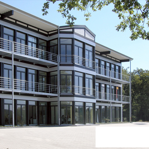 Site in Overath